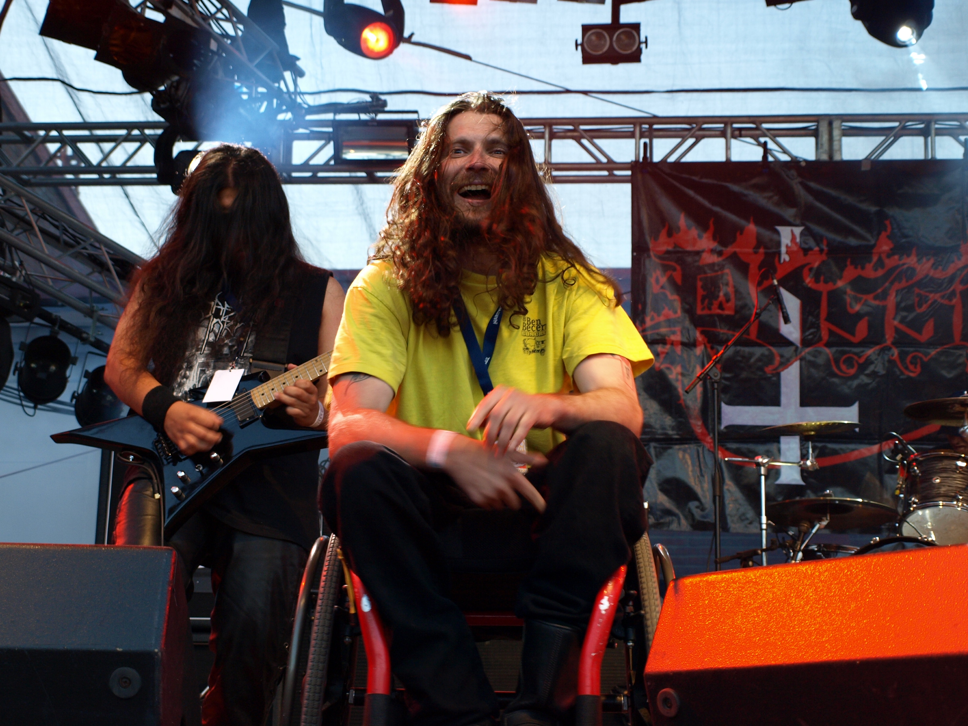 American death metal band Possessed live at Jalometalli 2008 in Oulu.